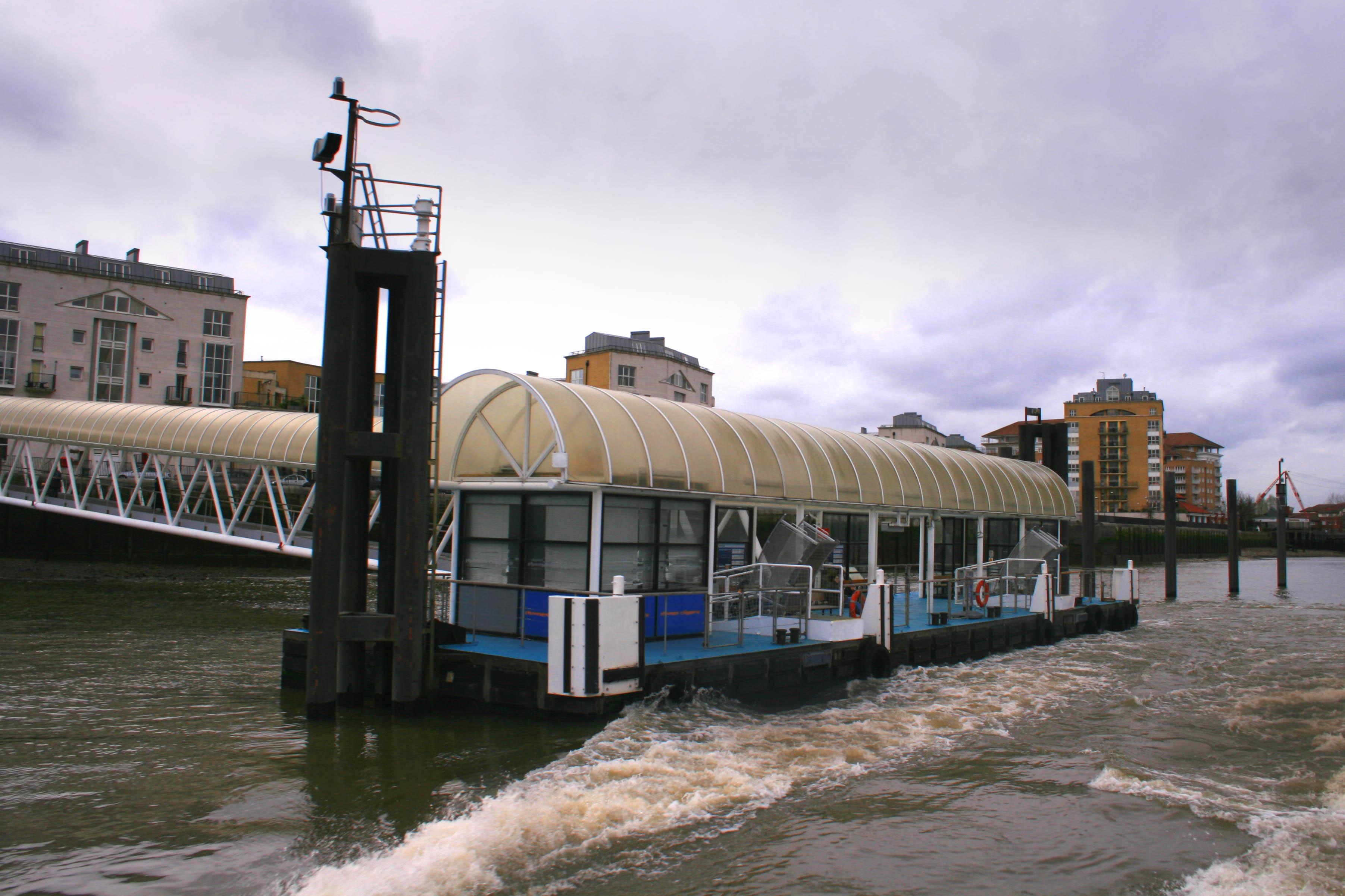 Greeland Dock Pier, Rotherhithe, London, UK.